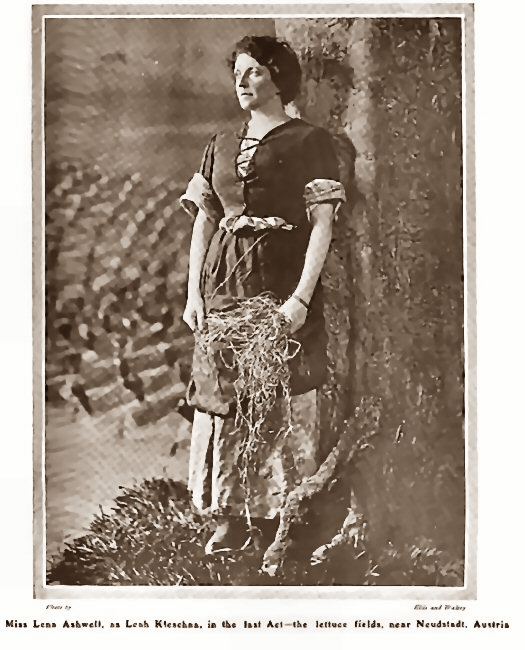 Actress Lena Ashwell in the 1905 play "Leah Kleschna"